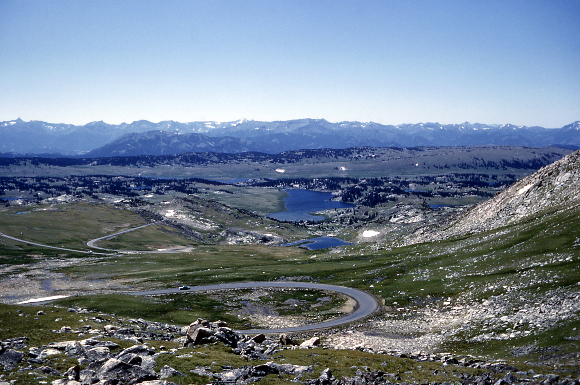 This image from the 1950's shows the Beartooth Highway as it winds through the Beartooth Mountains, Montana/Wyoming, U.S.